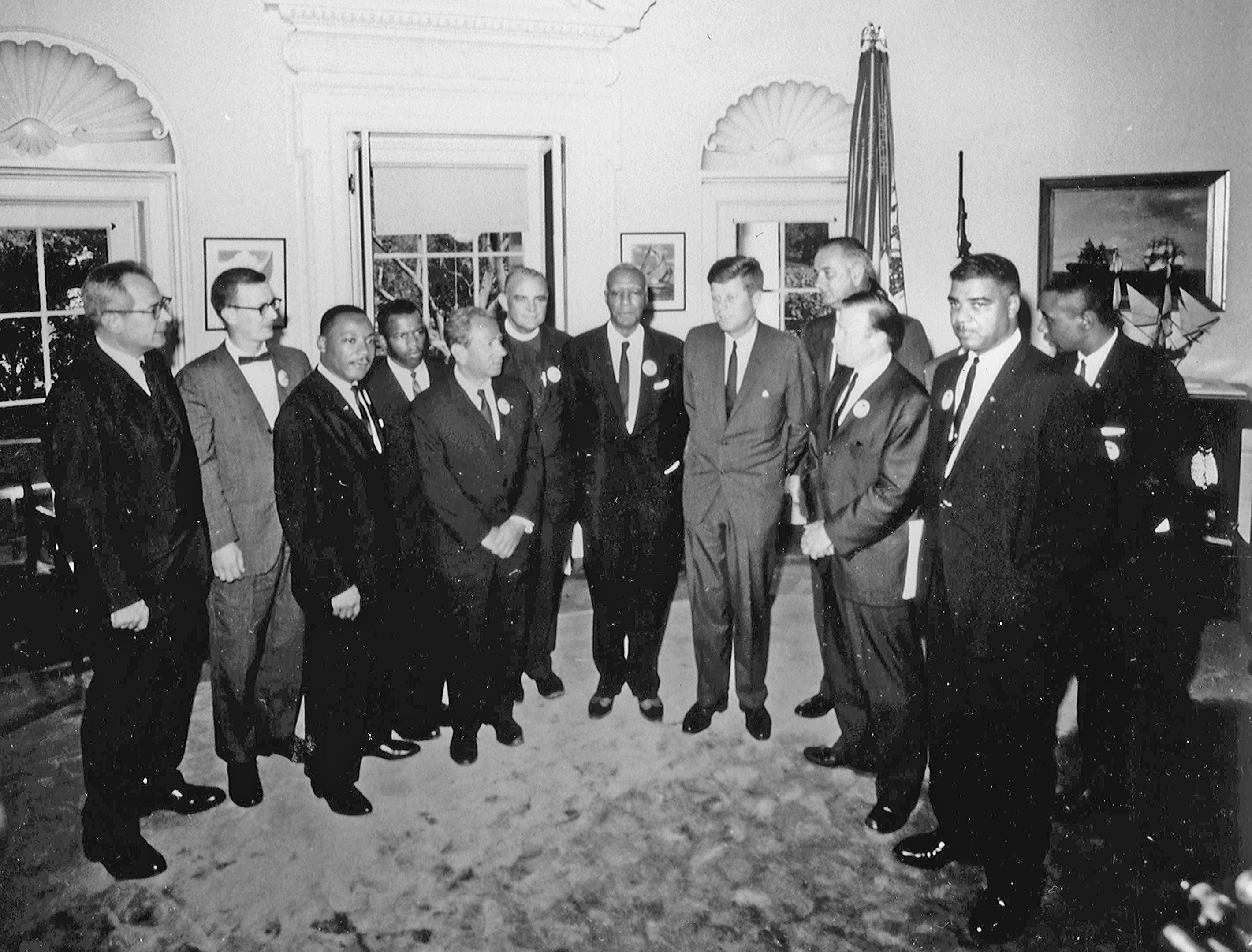 Civil rights leaders meet with President John F. Kennedy in the Oval Office of the White House after the March on Washington, D.C.. Left to Right — Willard Wirtz, Matthew Ahmann, Martin Luther King, Jr (SCLC), John Lewis, Rabbi Joachin Prinz, Eugene Carson Blake, A. Philip Randolph, President John F. Kennedy, Vice President Lyndon Johnson, Walter Reuther (UAW), Whitney Young, Floyd McKissick. Others not in order: Roy Wilkins (NAACP).